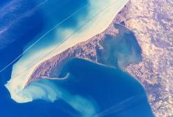 Long Point - Lake Erie Ontario from NASA Source: Earth Sciences and Image Analysis, NASA-Johnson Space Center Description: Canada: Long Point Peninsula with bright sediment plumes, Lake Erie shore, Ontario (2001/04/26 17:36:12) URL: Notes: "NASA material is not protected by copyright unless noted. If copyrighted, permission should be obtained from the copyright owner prior to use. If not copyrighted, NASA material may be reproduced and distributed without further permission from NASA. NASA should be acknowledged as the source of the material."